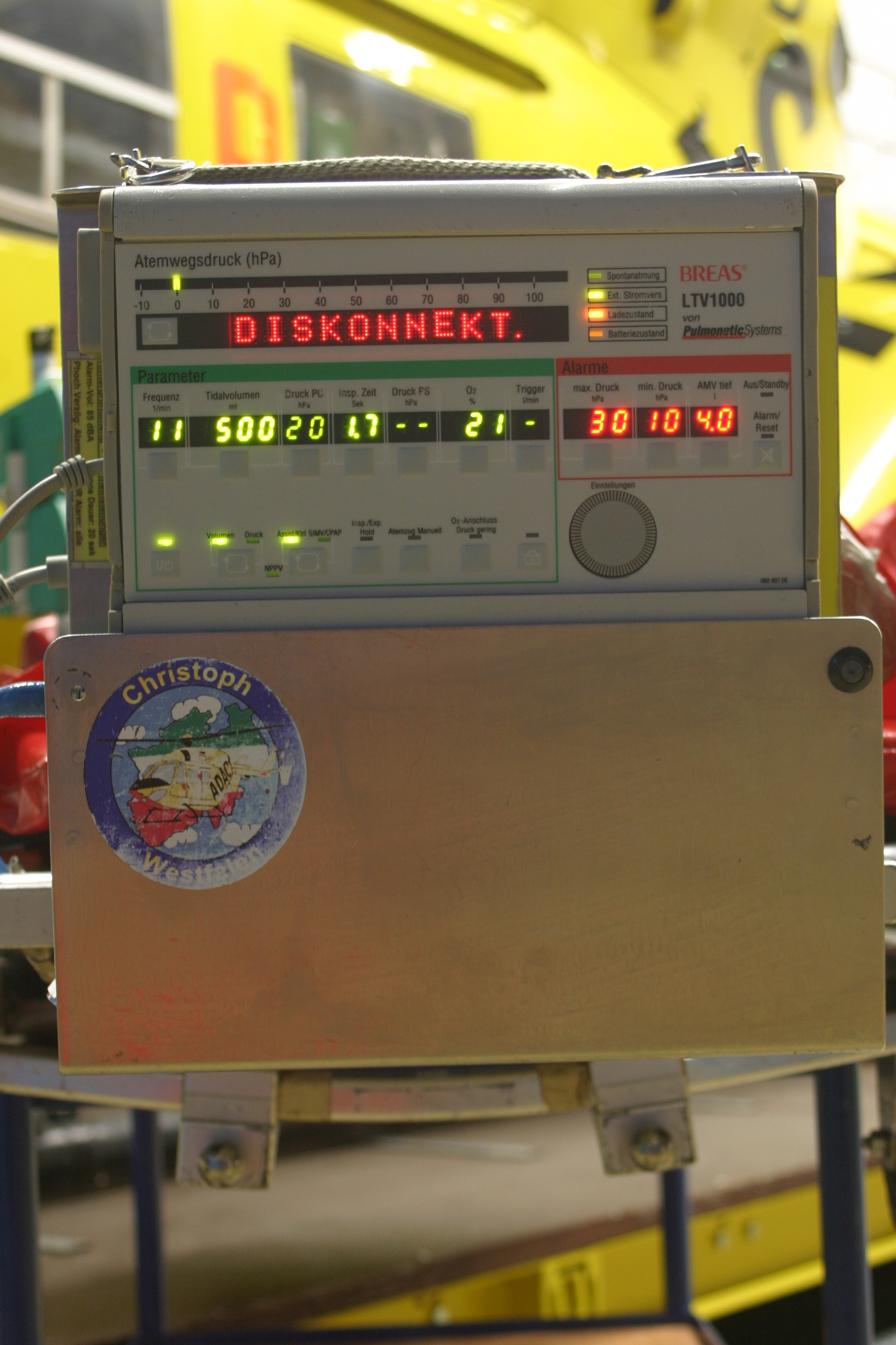 Foto from a lung ventilator so called "Breas Pulmonetic Systems LTV 1000"